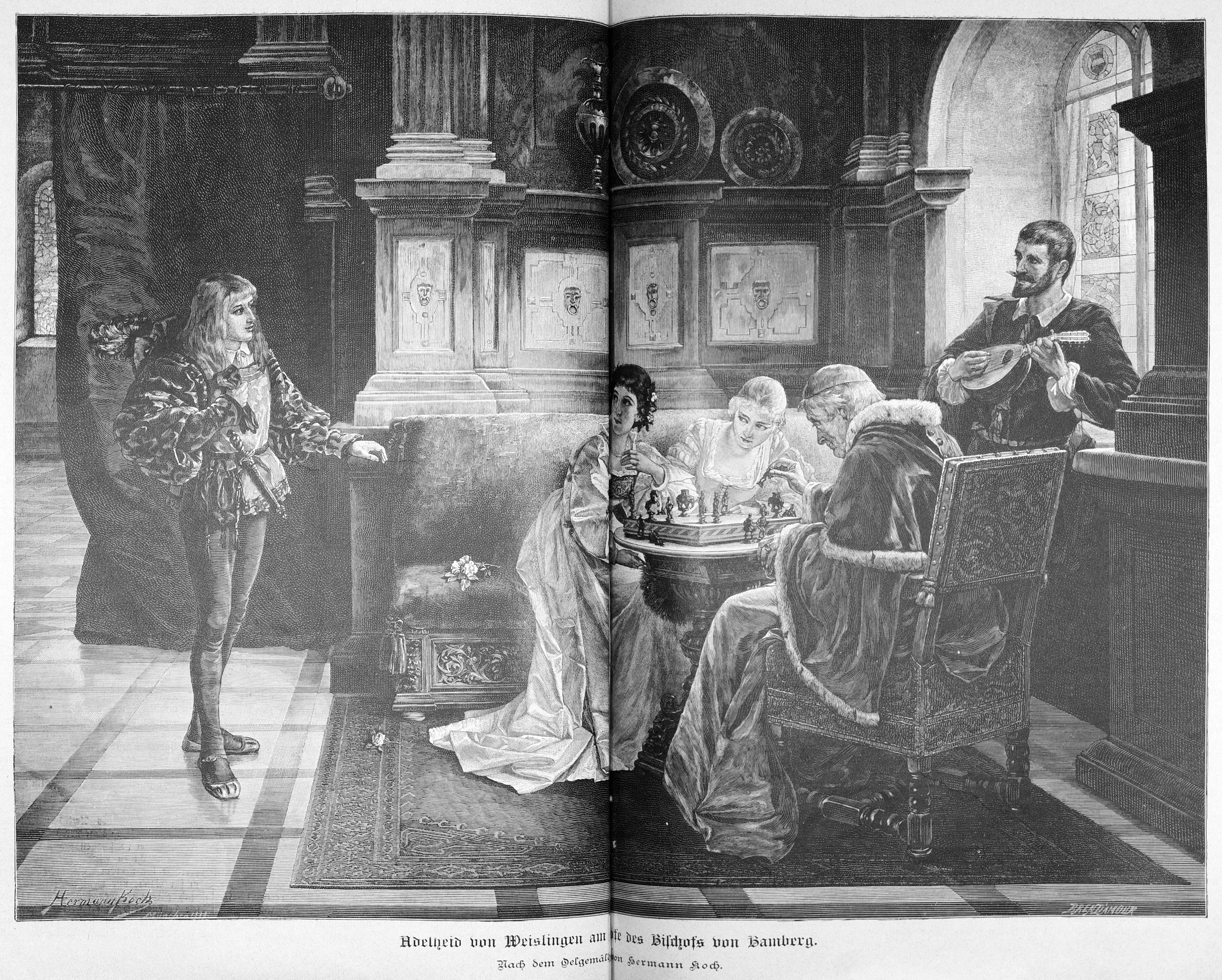 caption: "Adelheid von Weislingen am Hofe des Bischofs von Bamberg. Nach dem Oelgemälde von Hermann Koch."